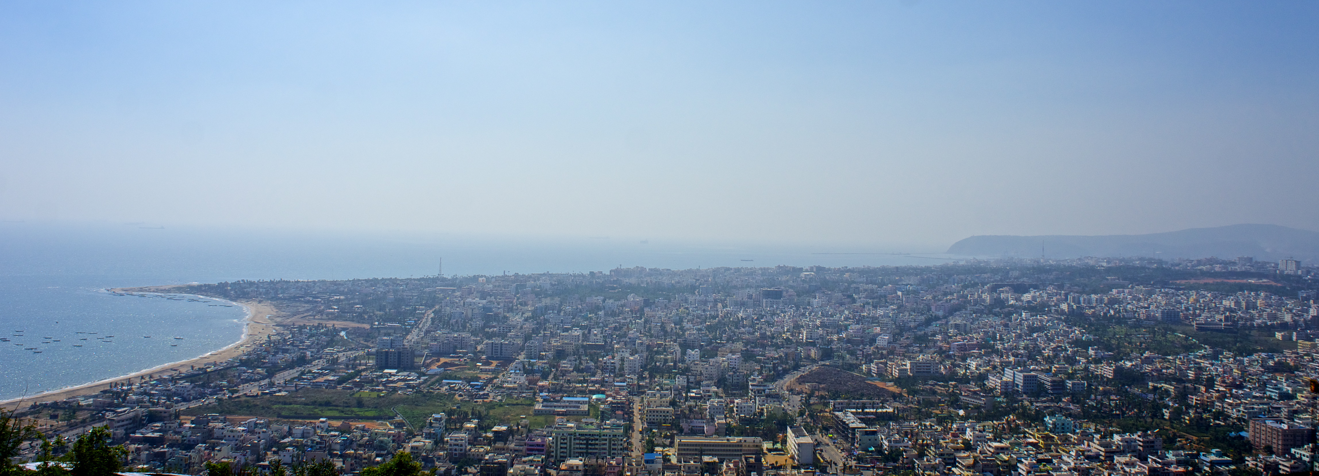 A view of Visakhapatnam from the city's Kailasagiri Park